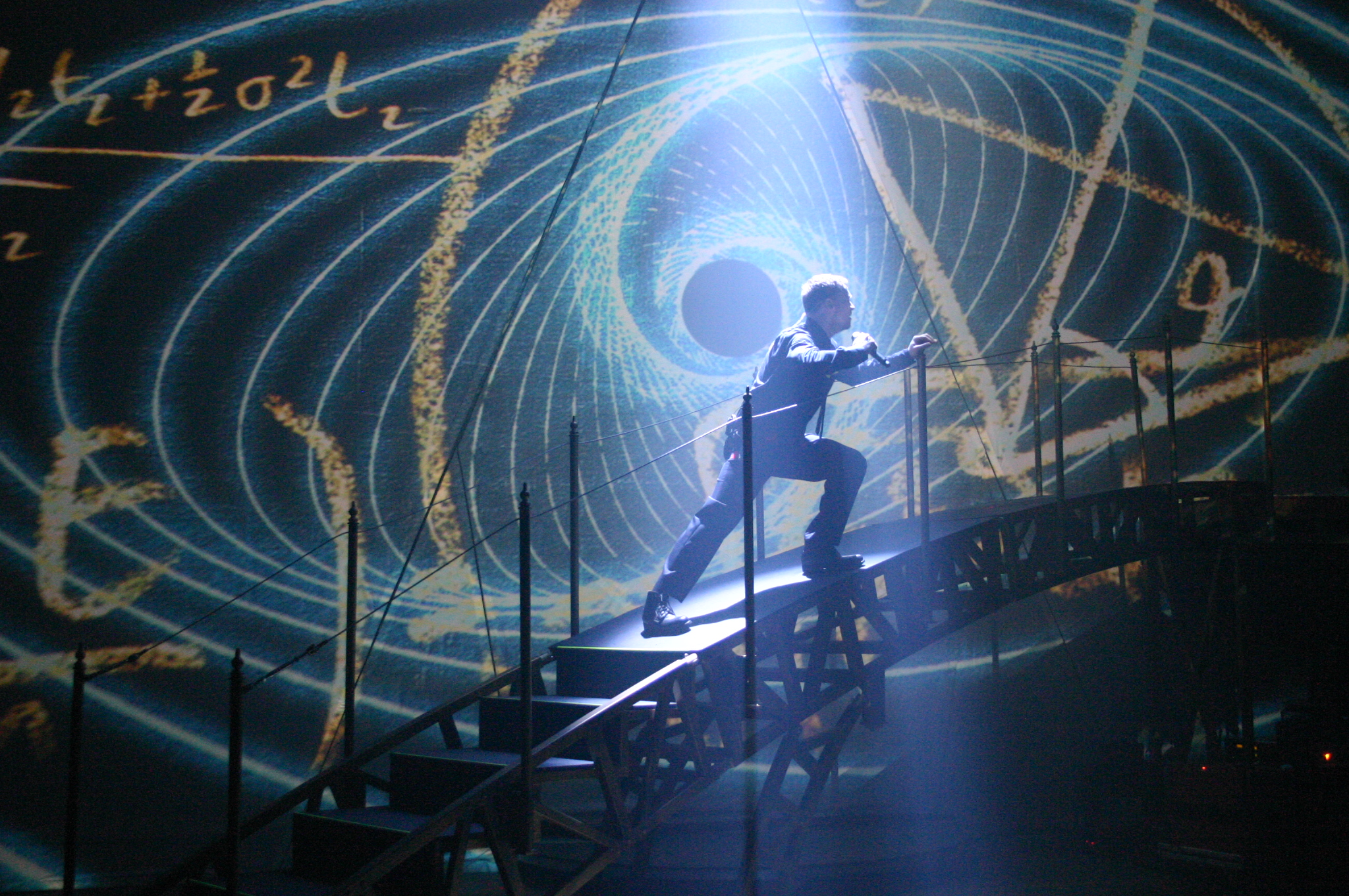 Darren Hayes Time Machine Tour, UK